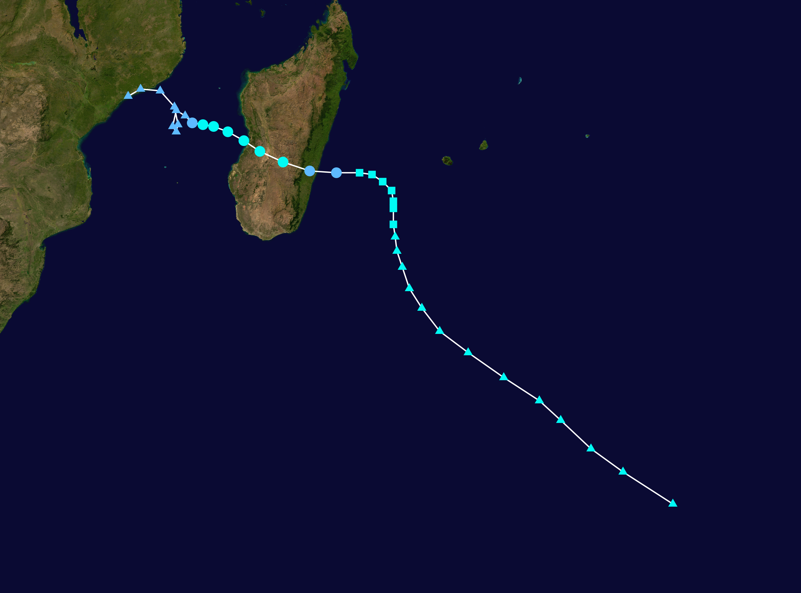 Track map of Severe Tropical Storm Chedza of the 2014-15 South-West Indian Ocean cyclone season. The points show the location of the storm at 6-hour intervals. The colour represents the storm's maximum sustained wind speeds as classified in the Saffir–Simpson scale (see below), and the shape of the data points represent the nature of the storm, according to the legend below. Saffir–Simpson scale Tropical depression≤38 mph≤62 km/h Category 3111–129 mph178–208 km/h Tropical storm39–73 mph63–118 km/h Category 4130–156 mph209–251 km/h Category 174–95 mph119–153 km/h Category 5≥157 mph≥252 km/h Category 296–110 mph154–177 km/h Unknown Storm type Tropical cyclone Subtropical cyclone Extratropical cyclone / Remnant low / Tropical disturbance / Monsoon depression